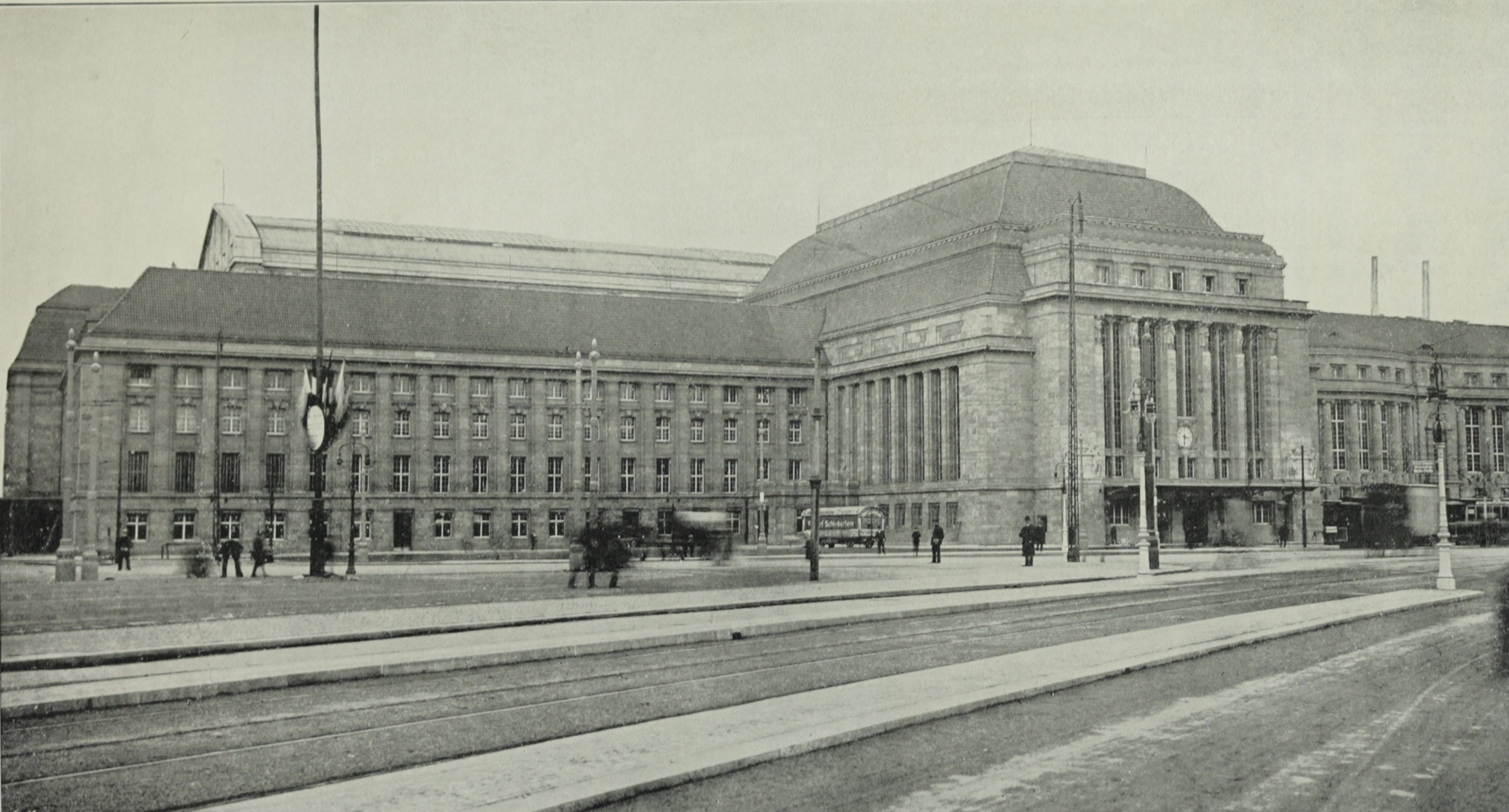 Leipzig Hauptbahnhof, Photo a. 1913